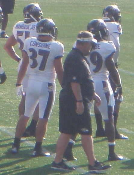 Baltimore Ravens cornerback Sean Considine at Navy-Marine Corps Memorial Stadium in 2012.